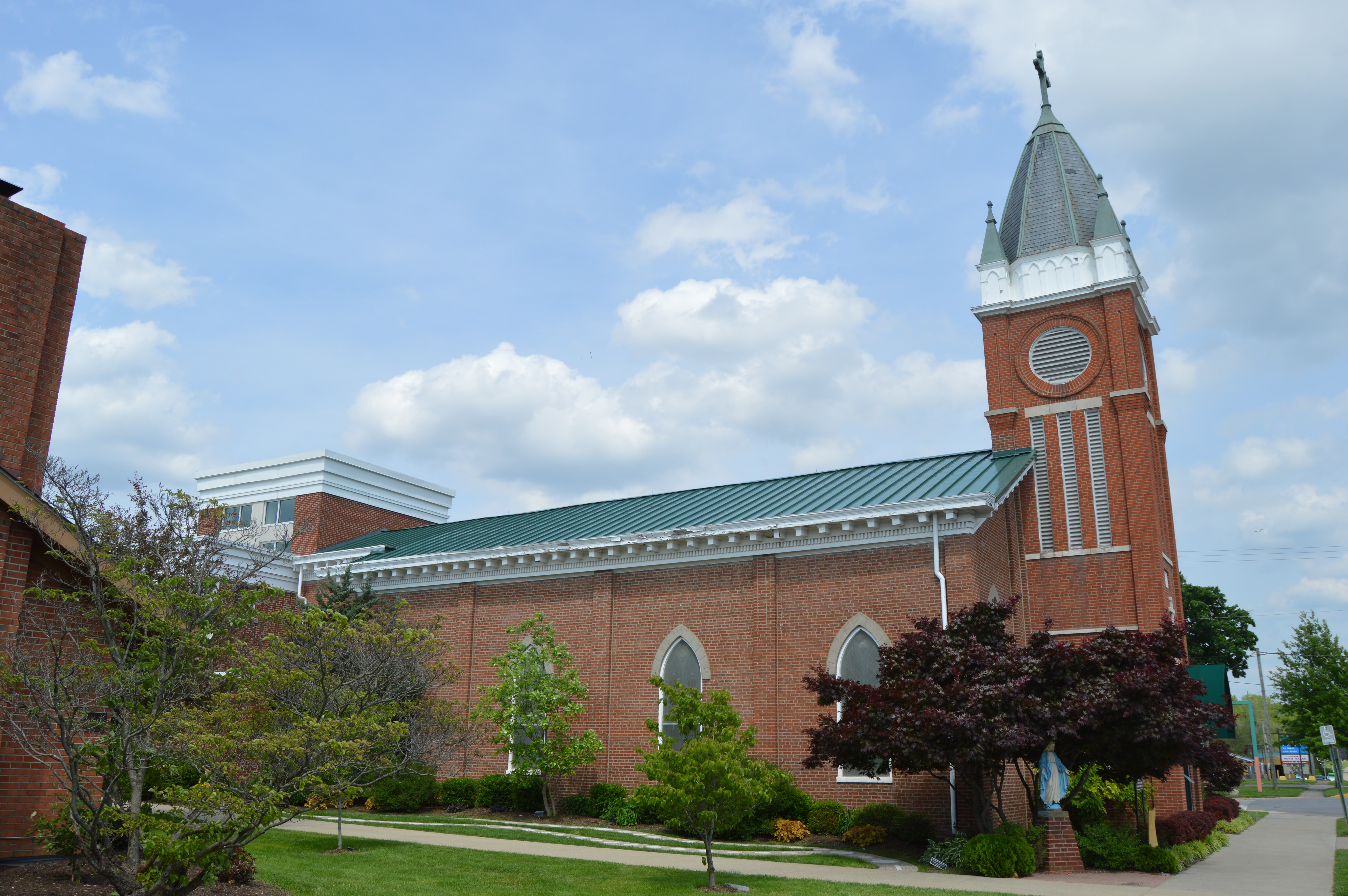 Front and western side of the Church of the Annunciation, located at 105 Main Street (U.S. Route 60) in Shelbyville, Kentucky, United States. Built in 1860, it is listed on the National Register of Historic Places.